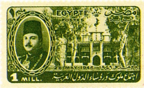 Arab League of states meeting at Anshas palace, Arab League conference 28-5-1946-Farouk